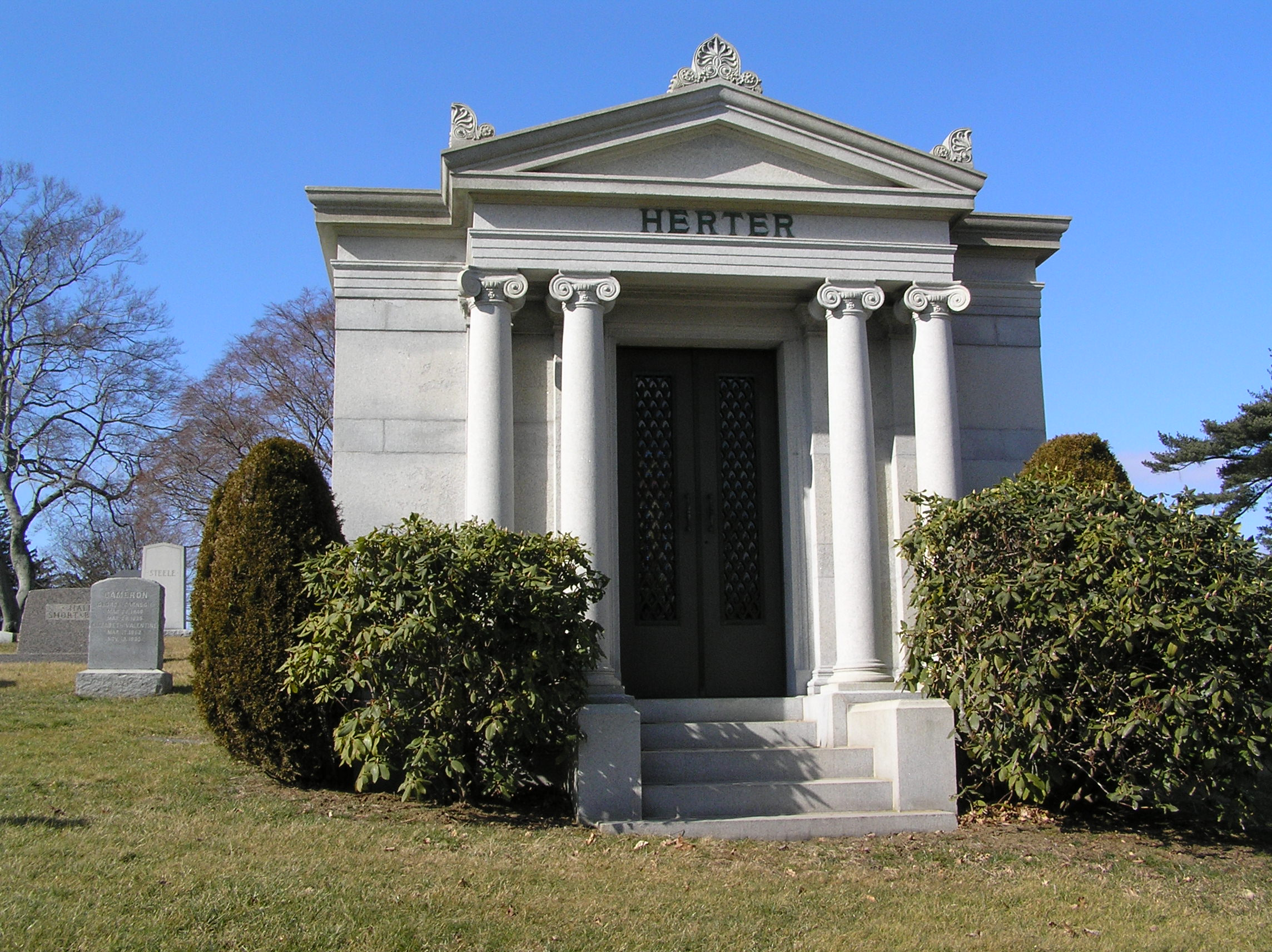 The private mausoleum of Gustave Herter in Kensico Cemetery, Valhalla, NY. Death notice, The New York Times (December 1, 1898)